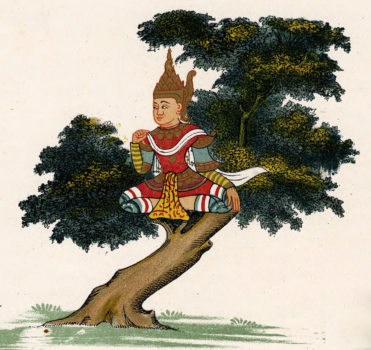 Yokkaso (guardian spirits of the trees) in Burmese representationမြန်မာဘာသာ: ရုက္ခစိုး